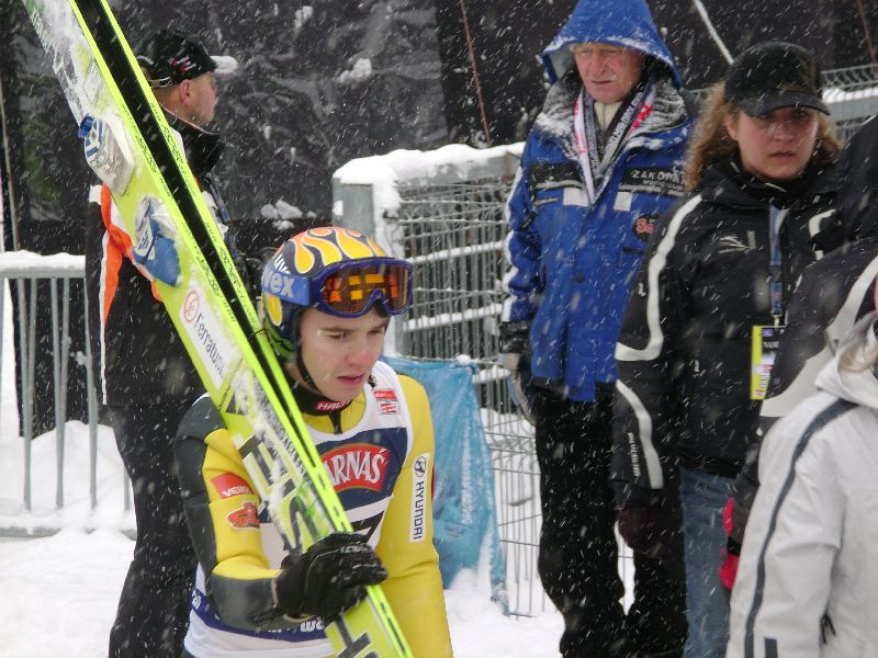 ski jumper Harri Olli from Finland during the World Cup in Zakopane on 27-1-2008